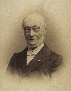 Johan Louis Ussing (1820-1905), Danish philologist and professor